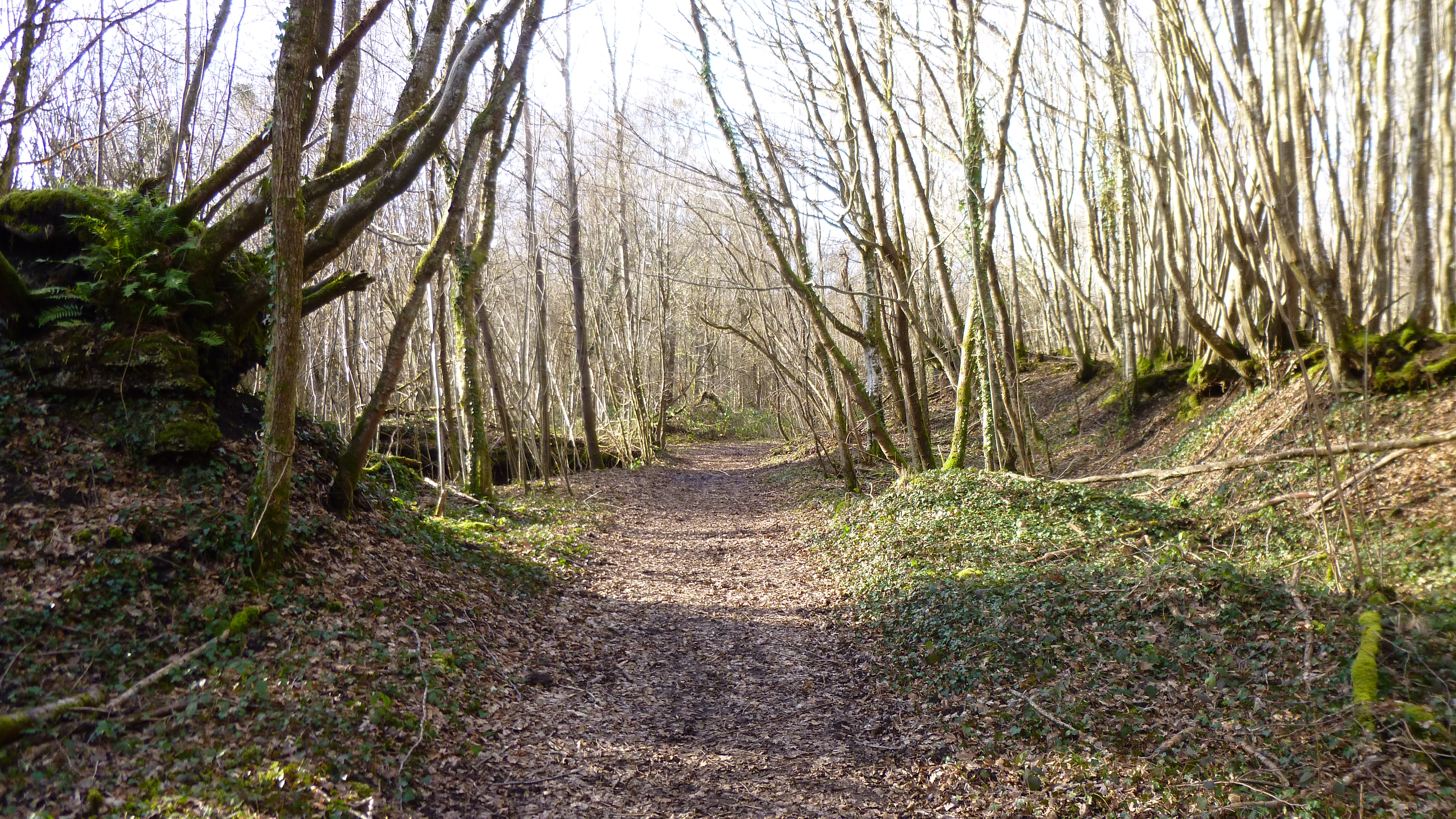 The "ferrier", Tannerre-en-Puisaye, Yonne, Burgundy, France. One of the paths in the ferrier. Prominent mound of slag on the left. Trench on the right.